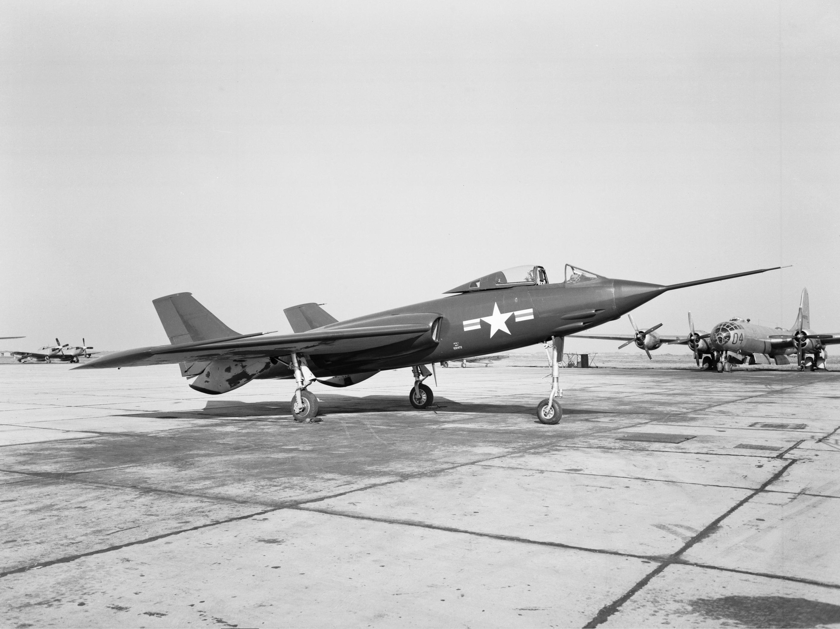 The Vought XF7U-1 Cutlass (BuNo 122472) at the NACA Langley Research Center, Virginia (USA), 3 December 1948.